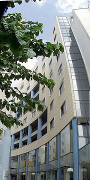 building for graduated studies